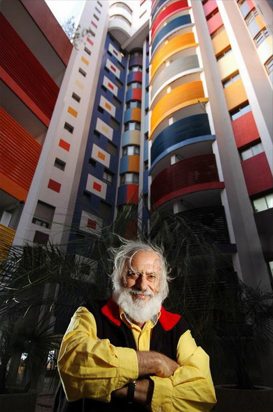 Yaacov Agam (b. 1928) is an Israeli sculptor and experimental artist best known for his contributions to optical and kinetic art.